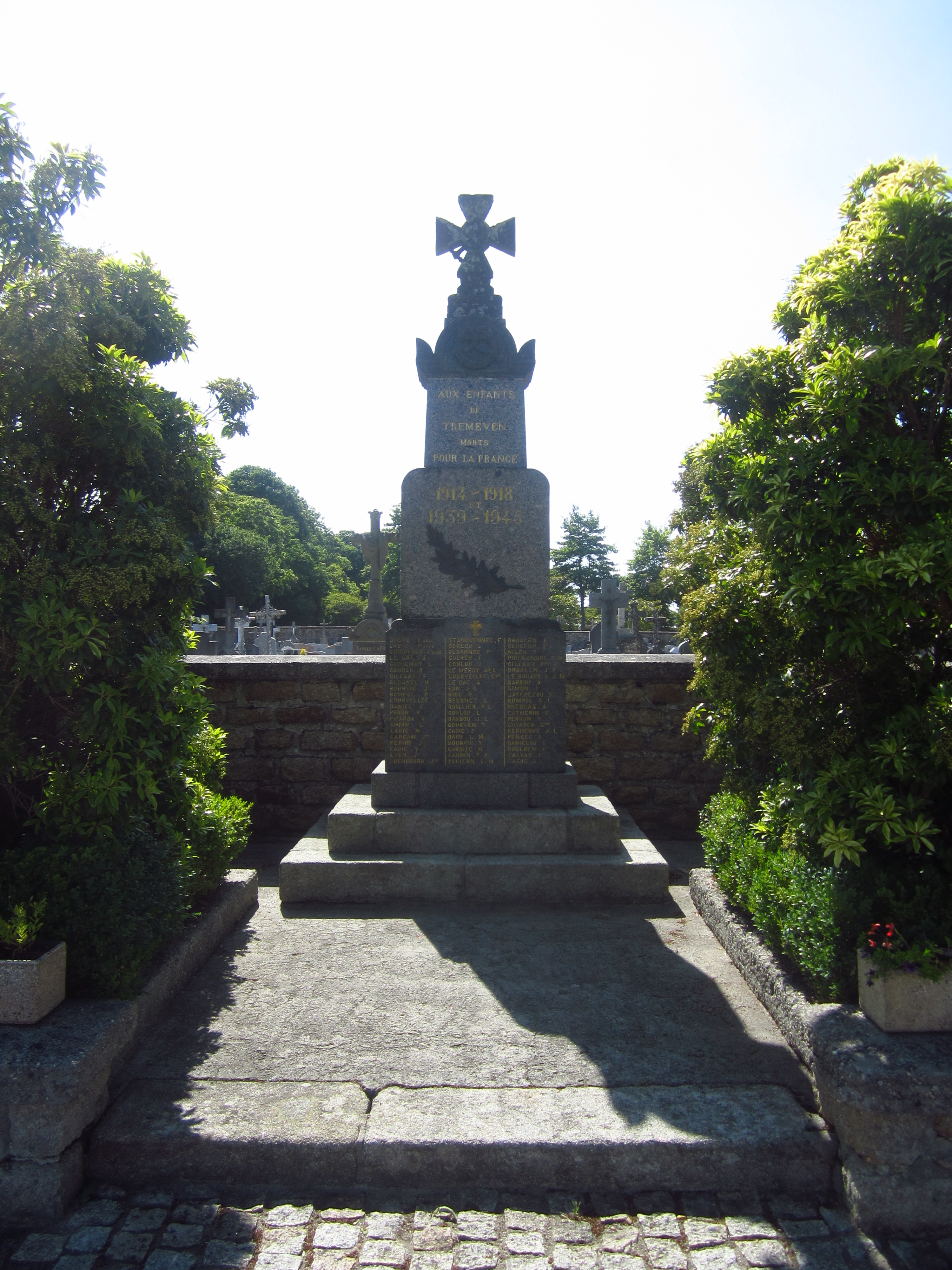 War memorial of Tréméven, Finistère